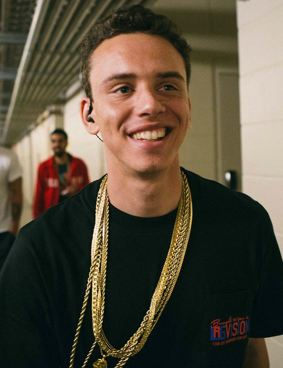 Logic backstage at the Verge Campus Tour in Orlando, Florida on April 8, 2014.